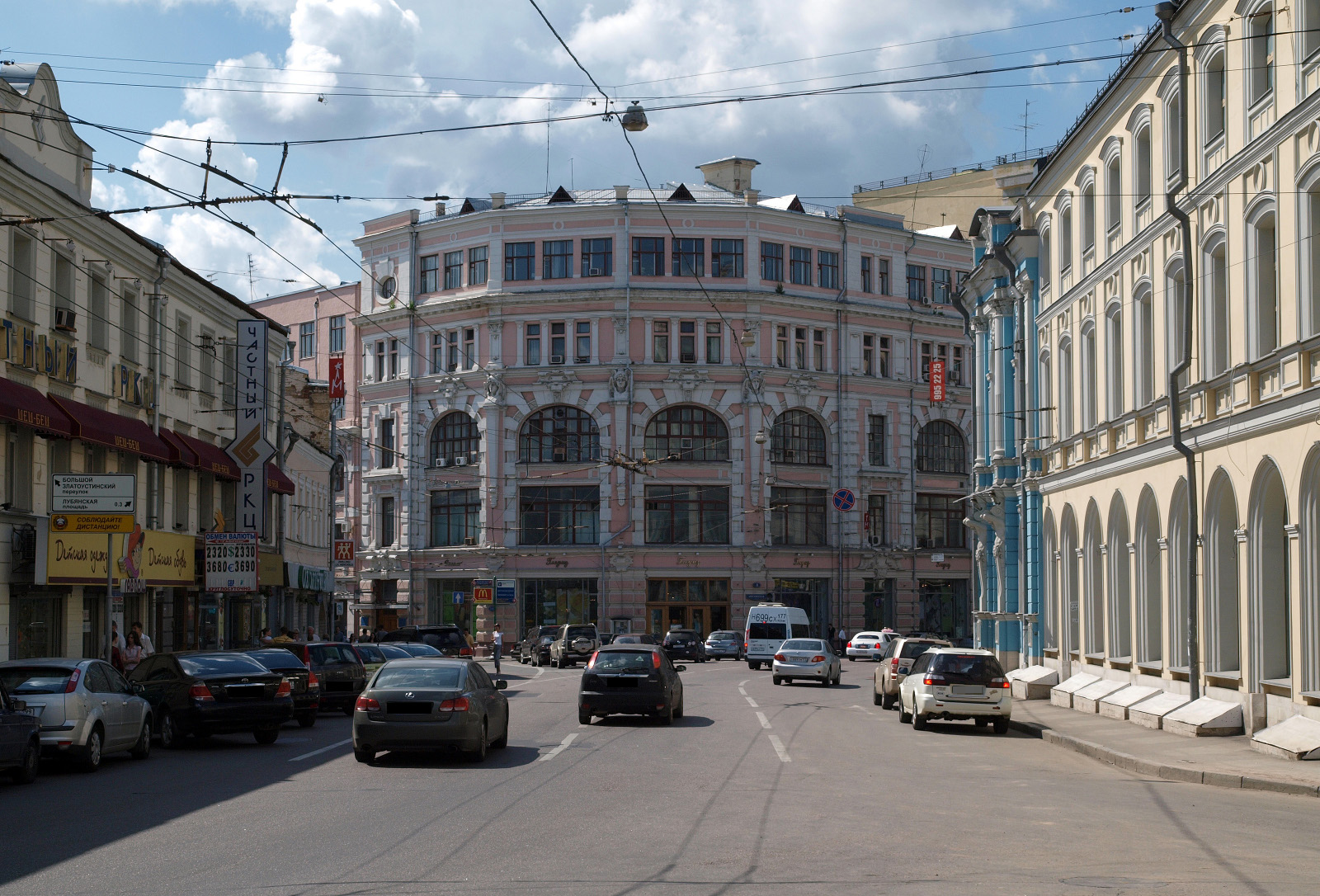 Moscow, Myasnitskaya Street.